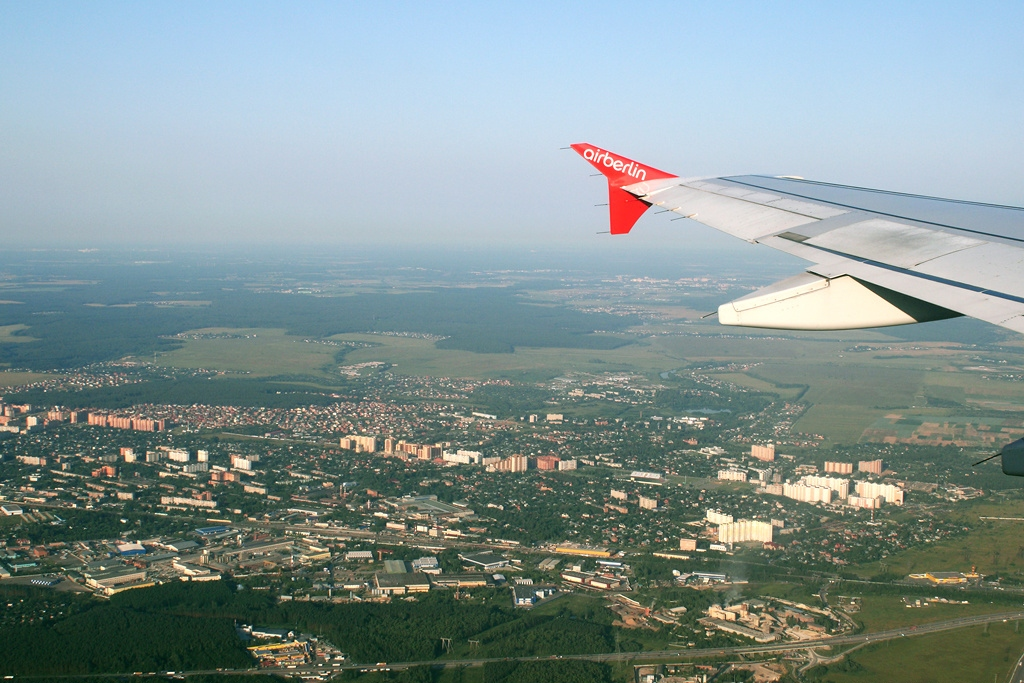 Domodedovo town, near airport.